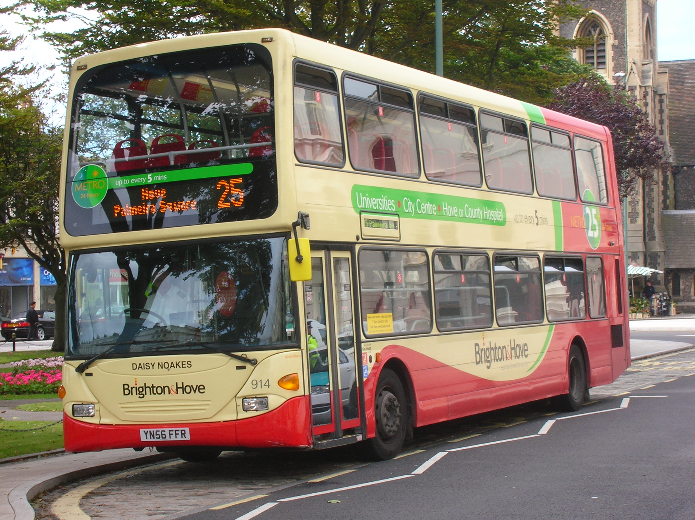 Brighton & Hove 914 Daisy Nokes (YN56 FFR), a Scania OmniDekka, in Palmeria Square, Brighton, on route 25.